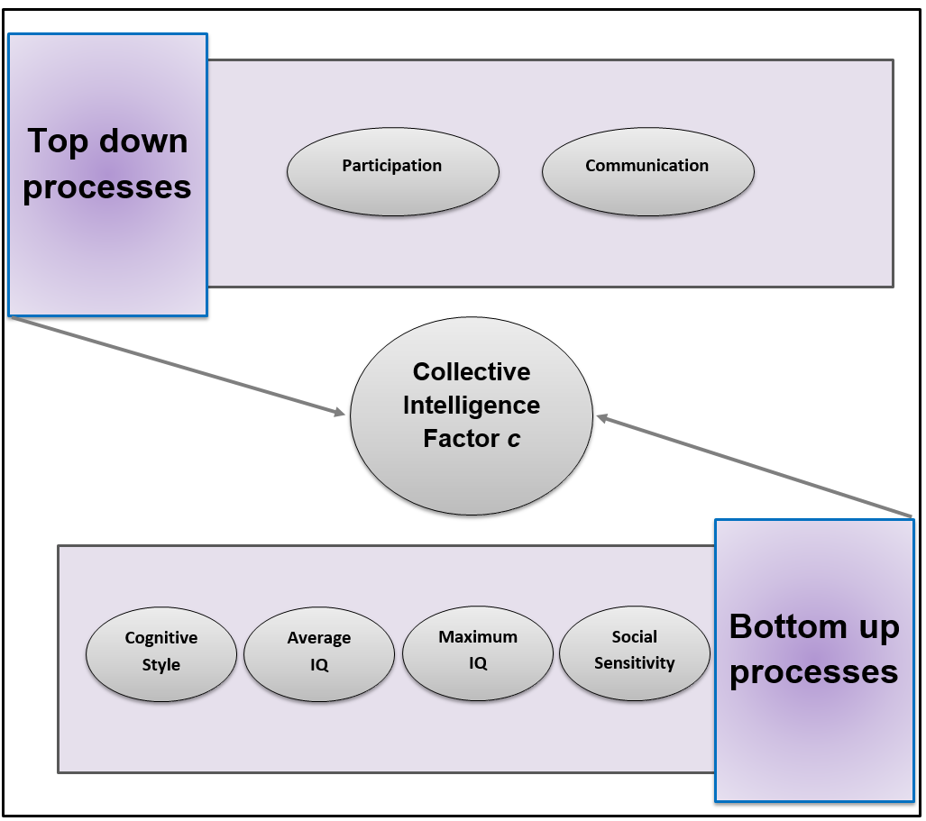 Causes for the collective intelligence factor c.